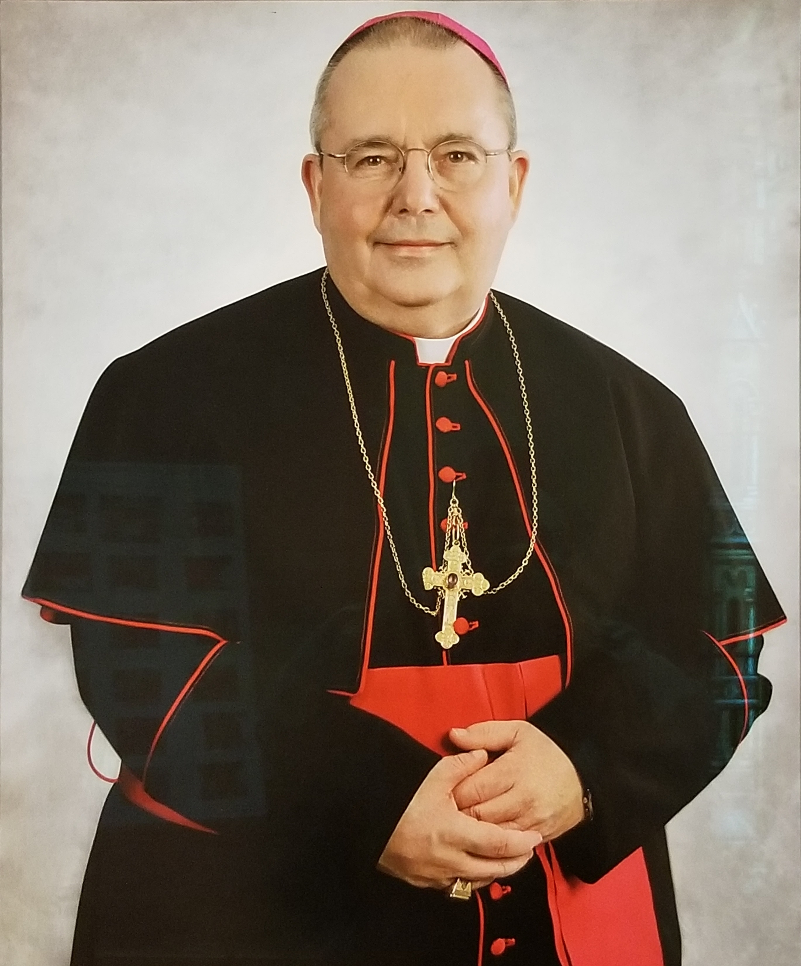 Picture of Bishop Talley from St. Brigid Catholic Church, Johns Creek, GA